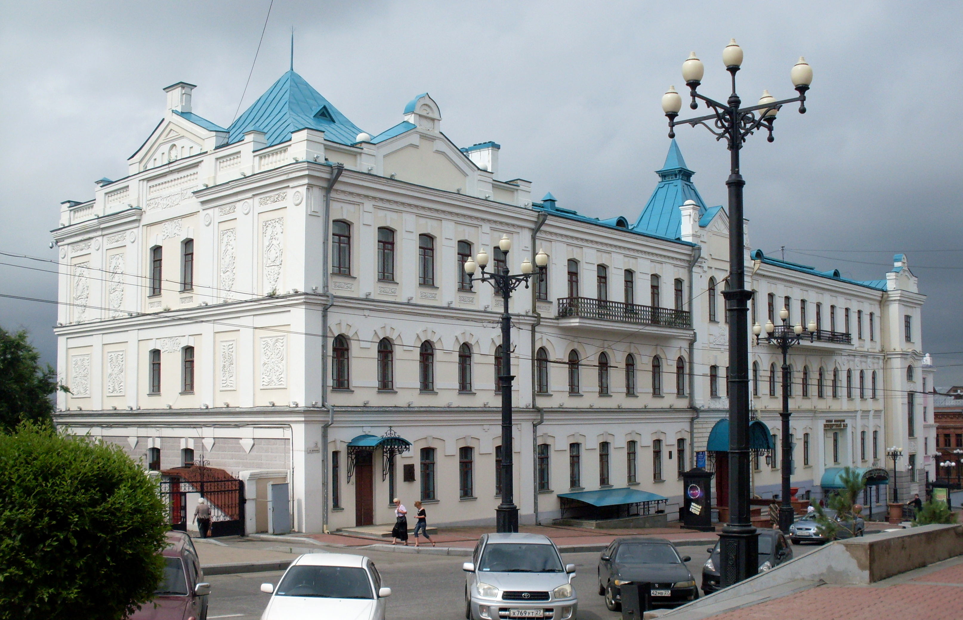 Art Museum in Khabarovsk